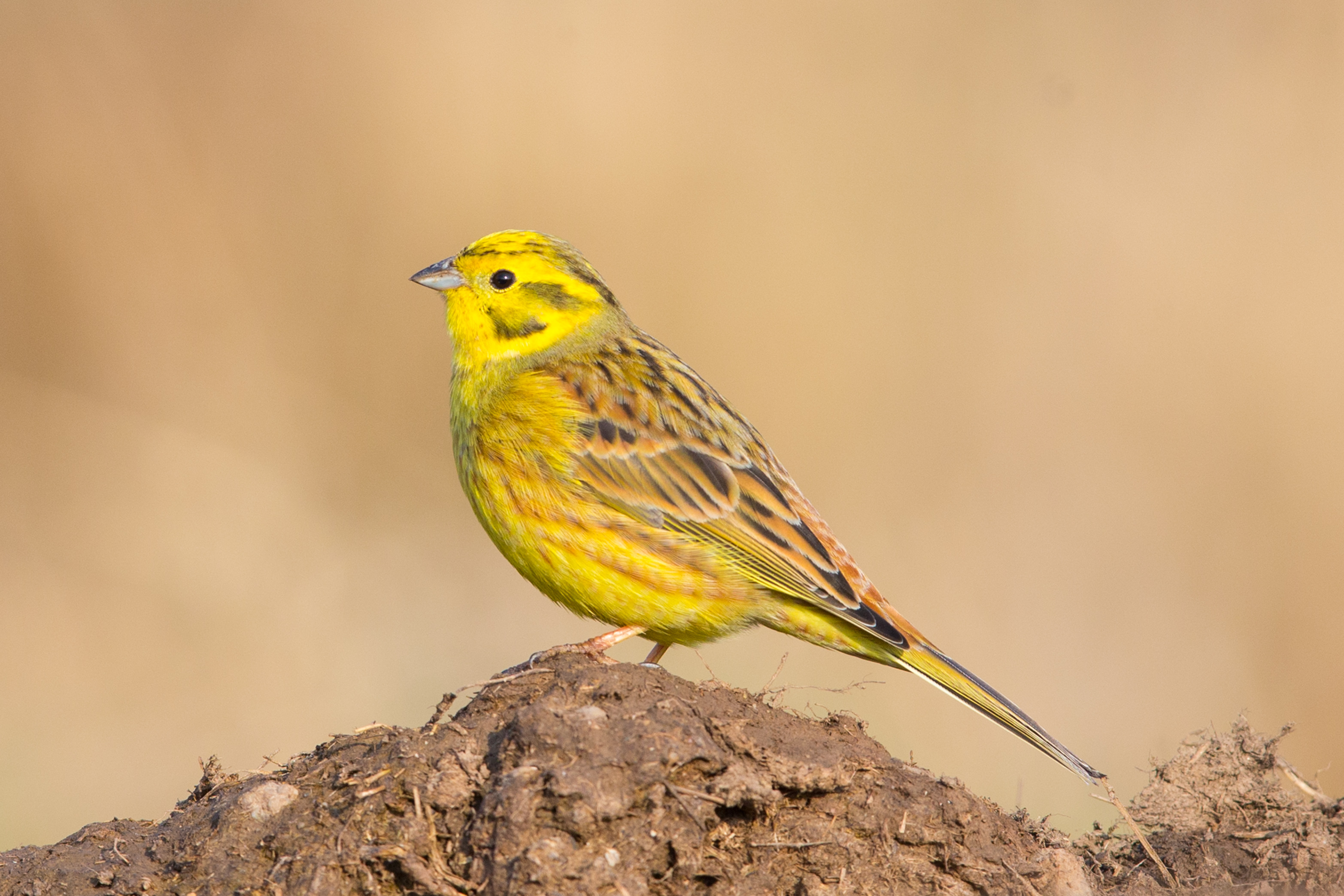 male Yellowhammer